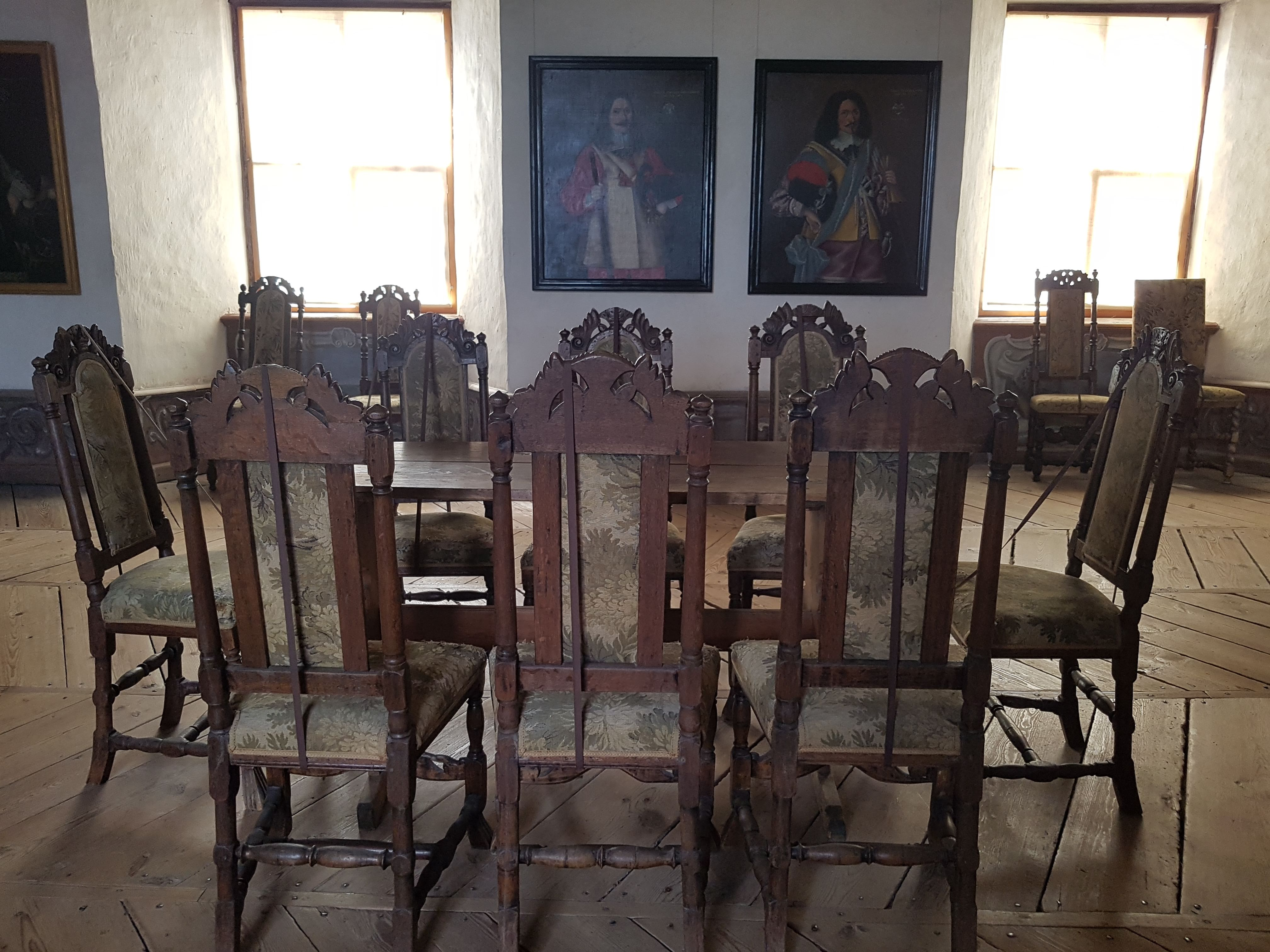 Läckö slott interior showing a dining room